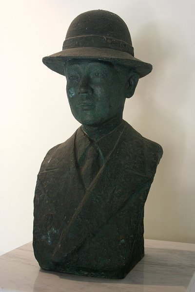 The Taiwanese novelist Chung Li-ho